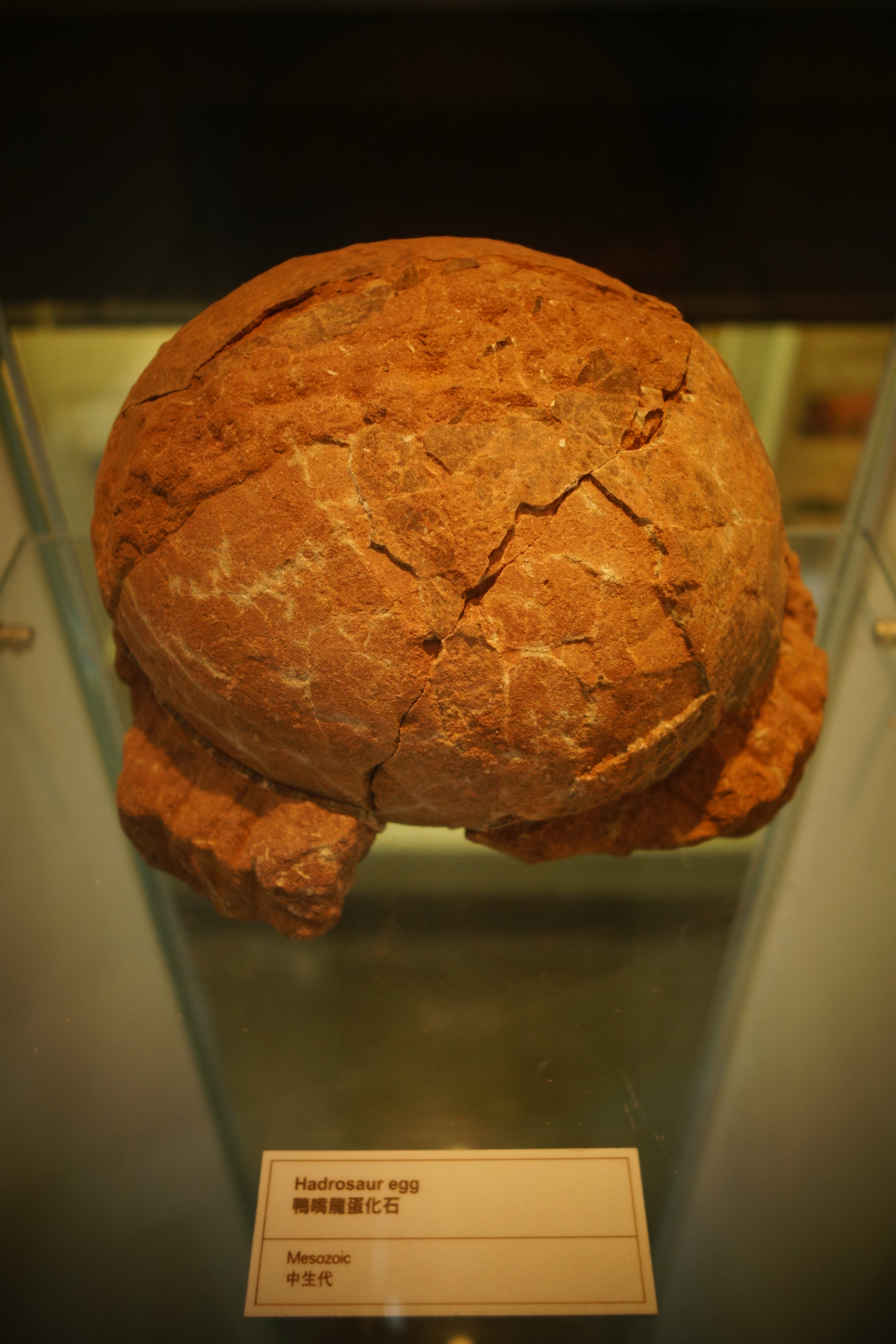 Hadrosaur egg